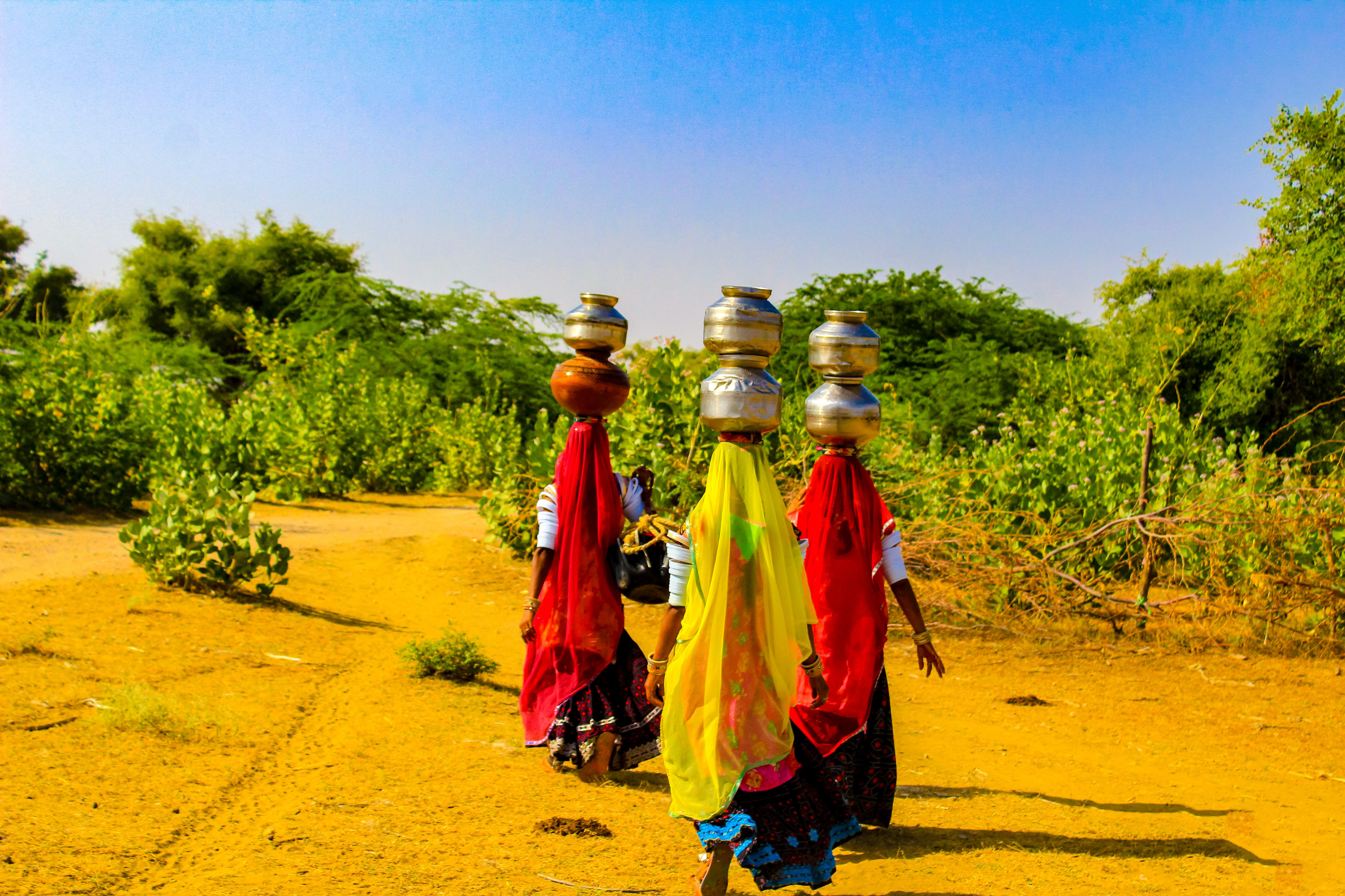 This photo has been taken in the country: India